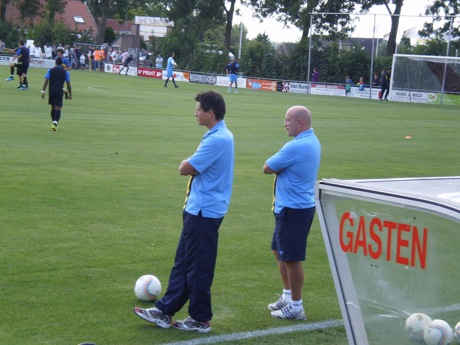 At a friendly match between Vitesse Arnhem and Hibernian